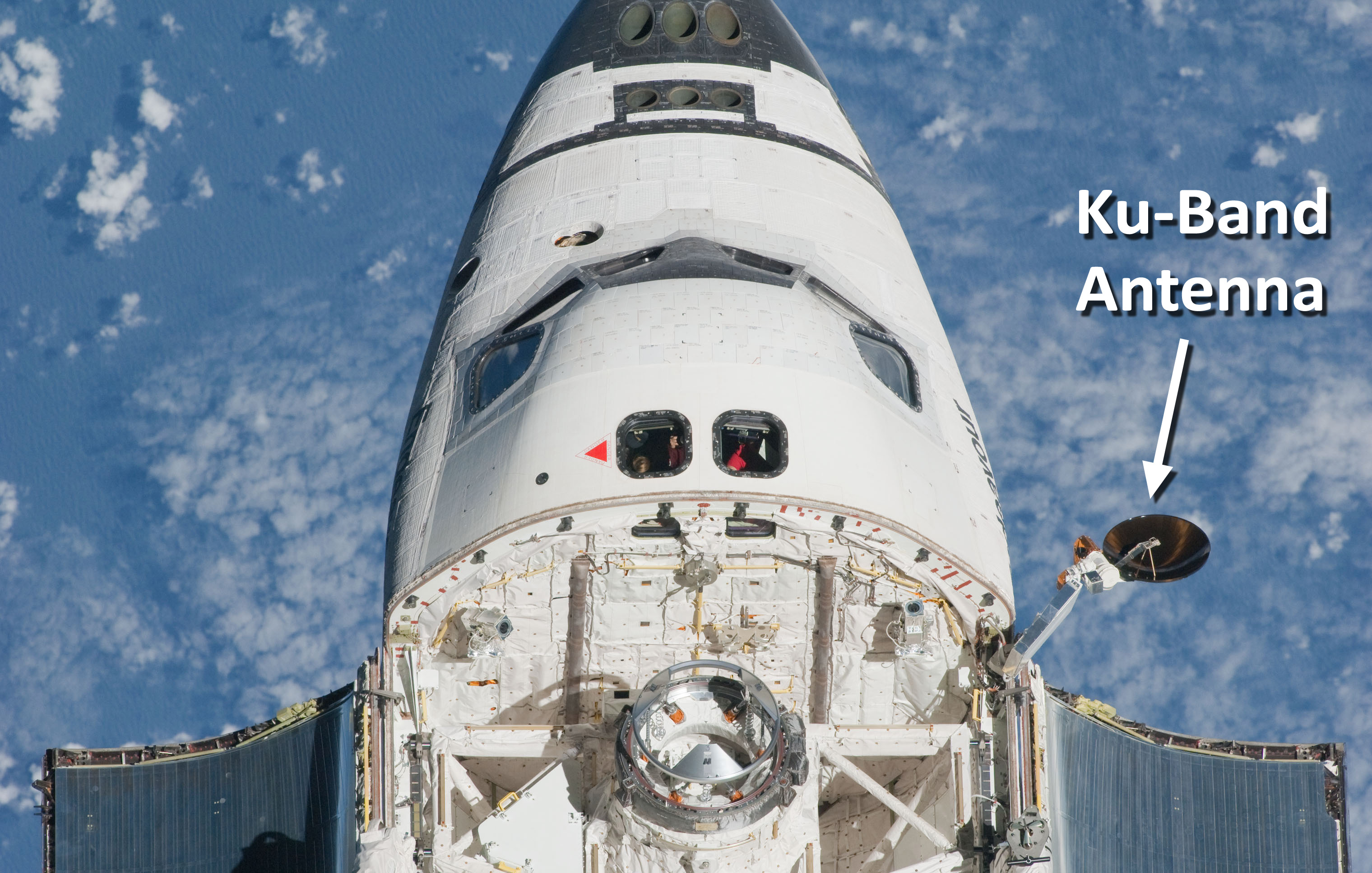 Deployed Ku Band Antenna, also used as a radar